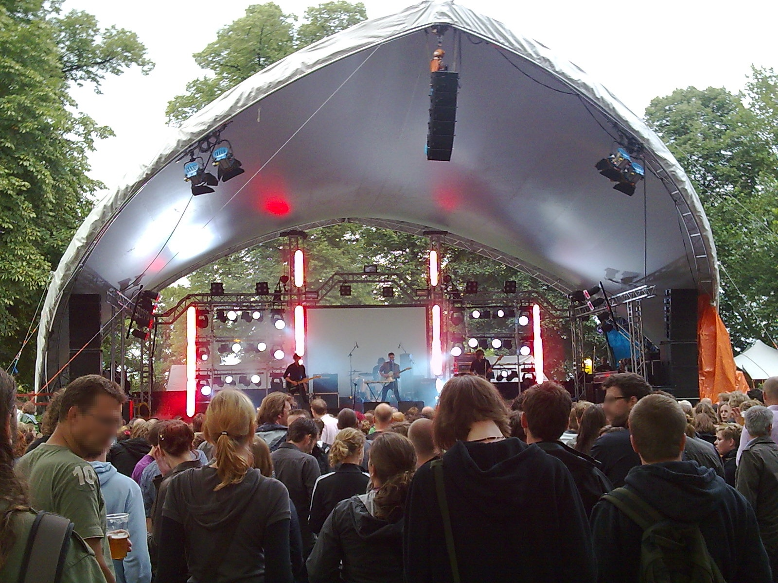 Haunts performing at de-Affaire festival in Nijmegen, The Netherlands.